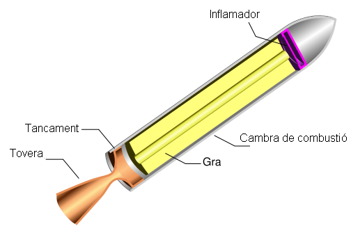 SVG redraw of Image:SolidRocketMotor.png